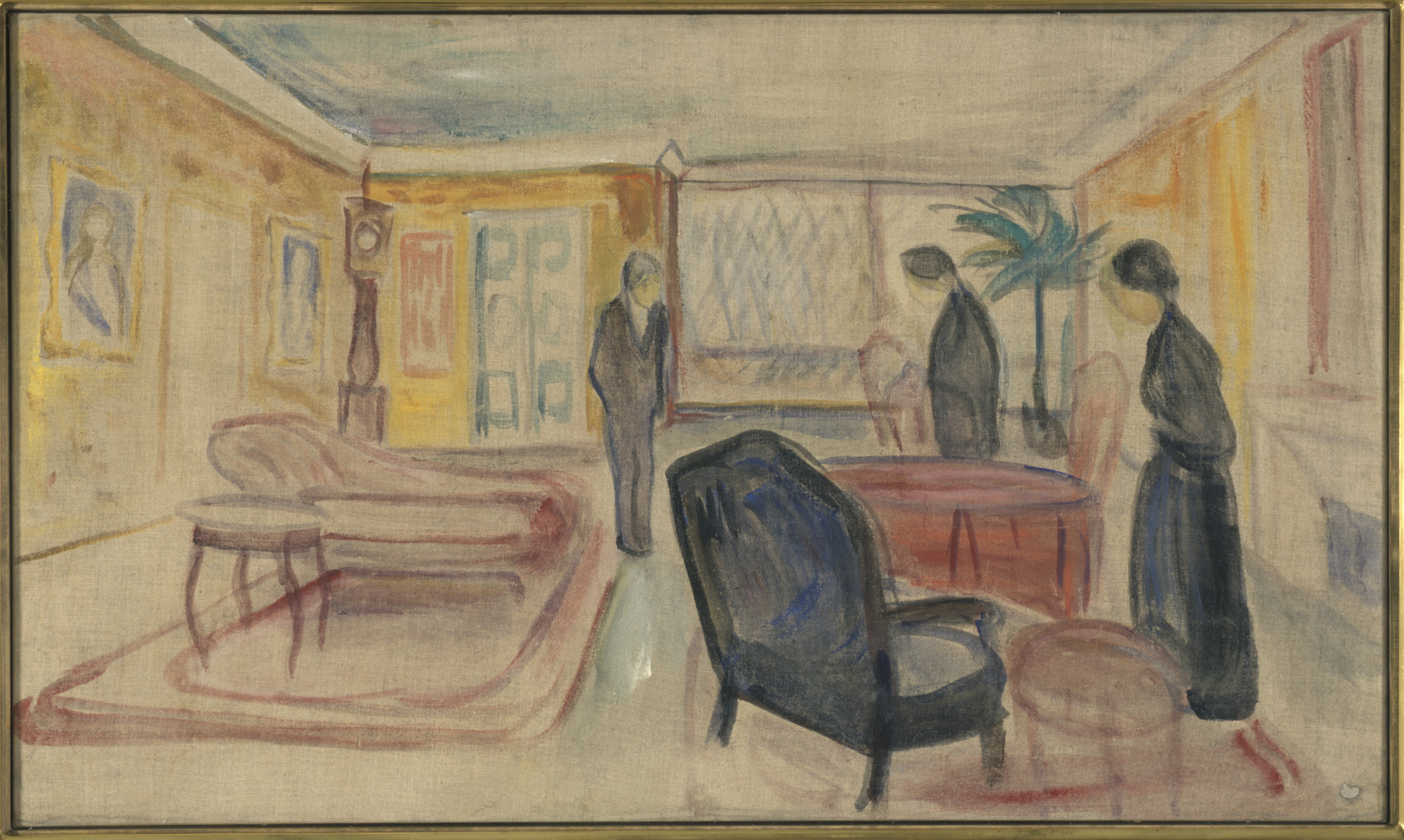 Stage design for Ibsen's Ghosts by Munch